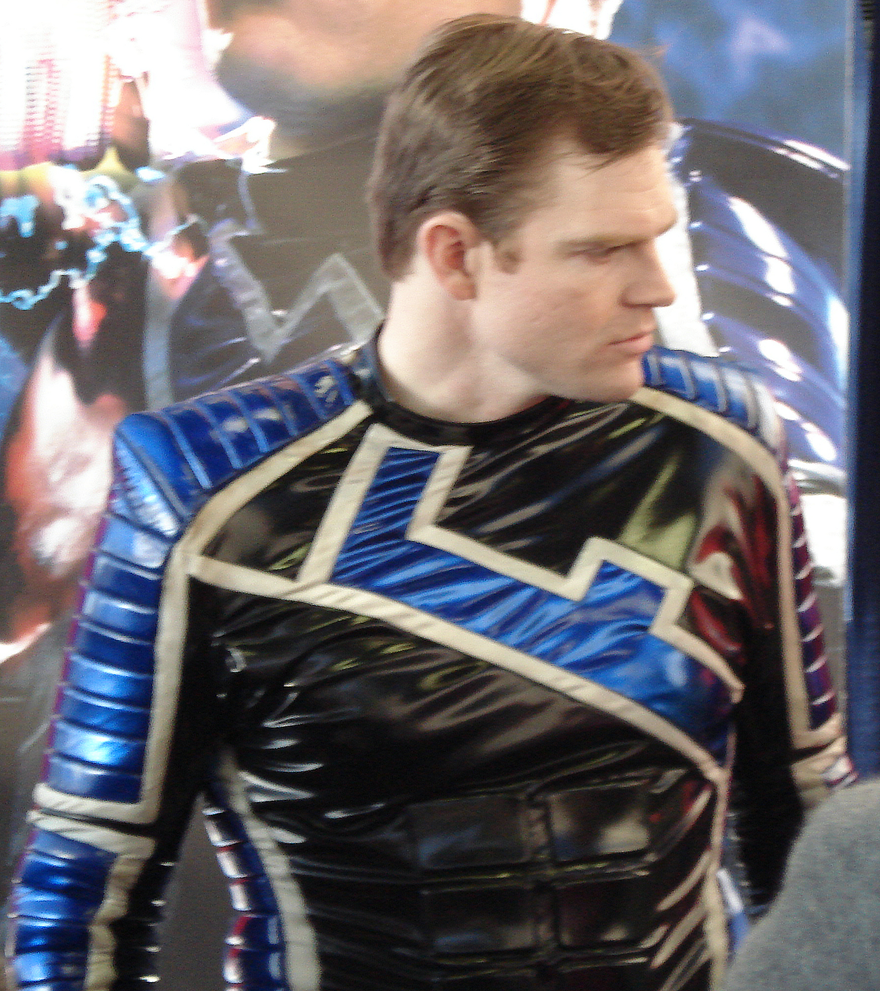 Matthew Atherton at the en:2007 New York Comic-Con. Copyright 2007 Jeffrey O. Gustafson - released under the GFDL and CC-BY-SA-2.0.